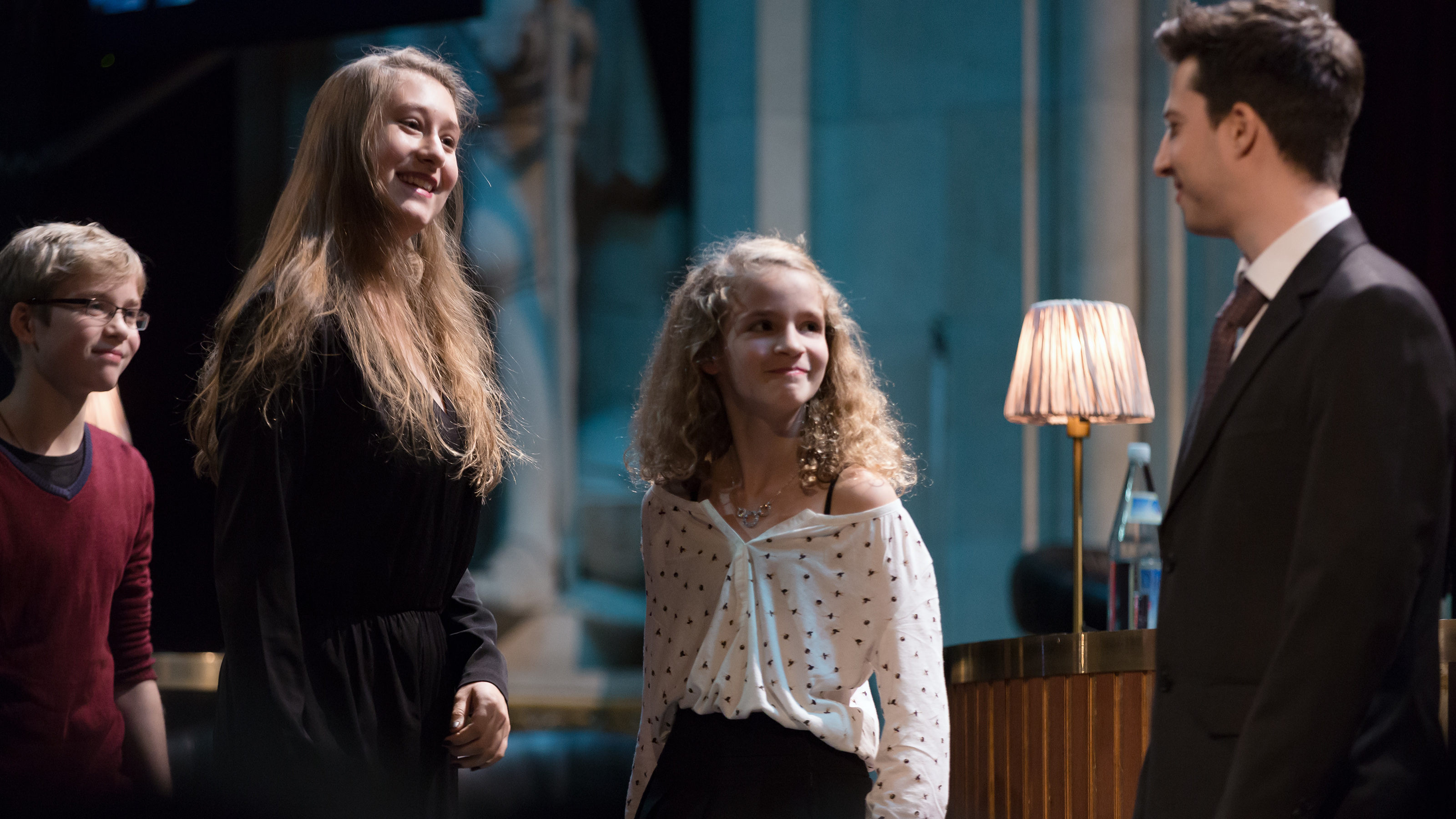 l.t.r.: Lino Gaier, Paula Brunner and Zita Gaier, actors in Maikäfer flieg, with Sebastian Watzinger at the Austrian Film Awards 2017; Rathaus, Vienna, Austria.